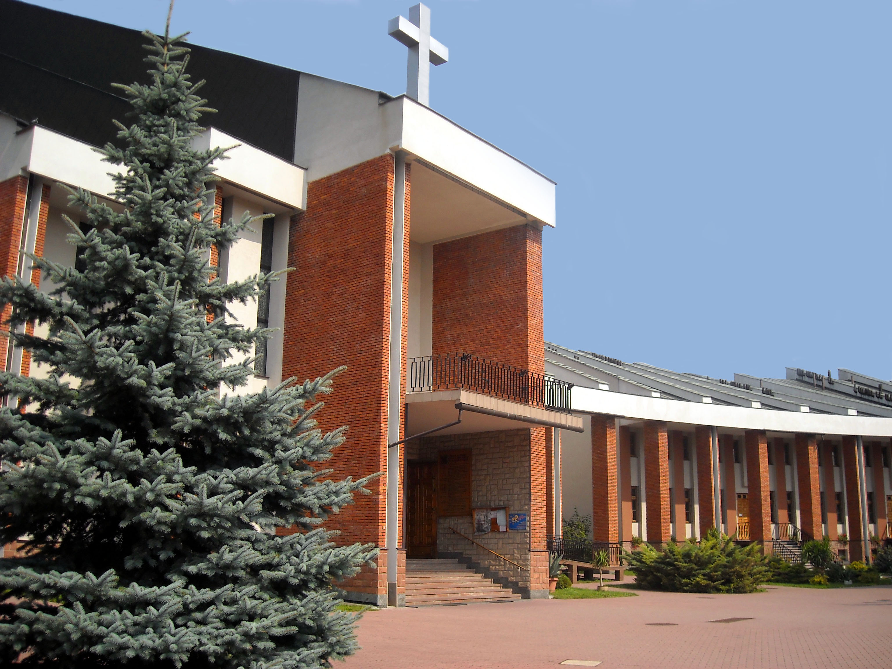 Grounds of The Catholic Church of the Mercy of God at Nałkowskich Street in the Wrotków district, Lublin (main entrance)